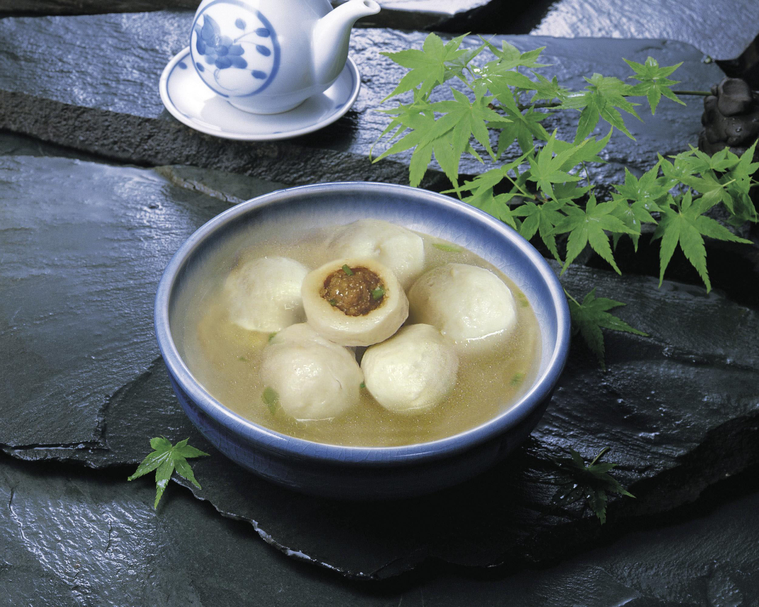 Lianjiang Fishball